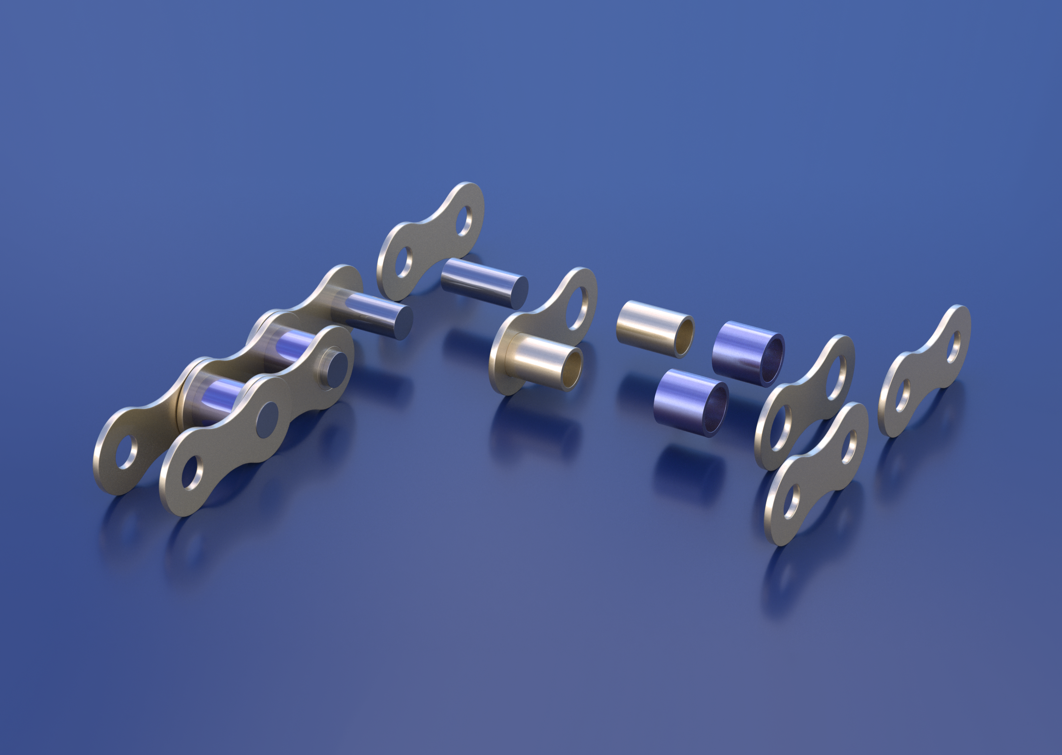 Layout of a roller chain